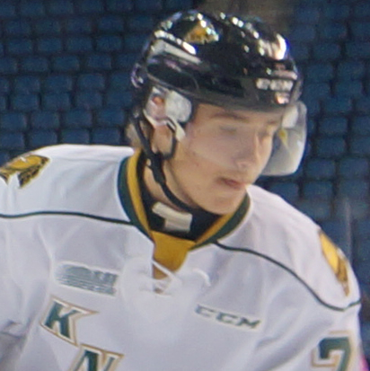 Janne Kuokkanen playing for the London Knights against the Hamilton Bulldogs in Hamilton, October 23, 2016.